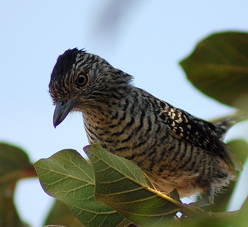 Barred Antshrike (Thamnophilus doliatus) in Jaú, São Paulo state, Brazil.